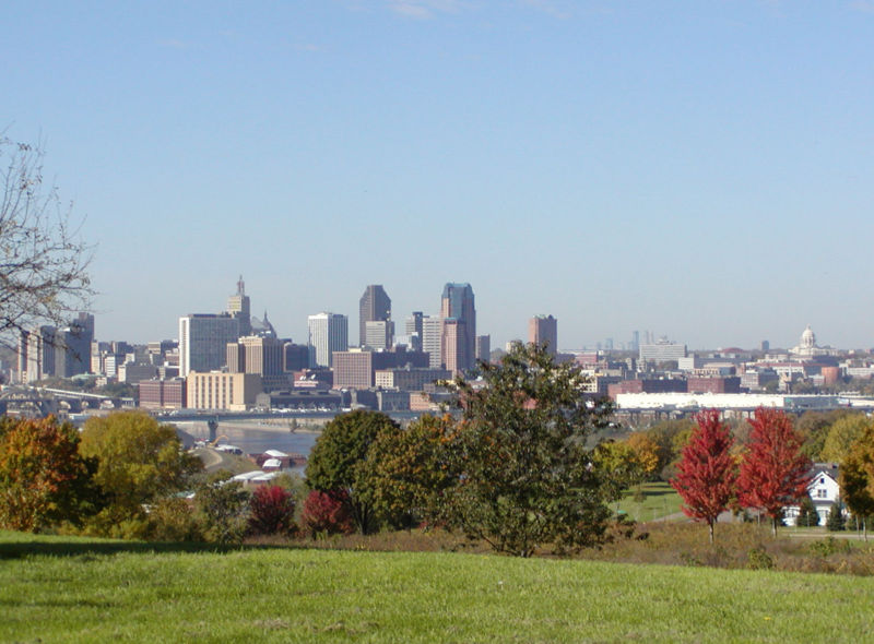 Saint Paul on the Mississippi with the Capitol building to the right, the Minneapolis skyline in the distance, and a 19th century home in the foreground, taken from Indian Mounds Park